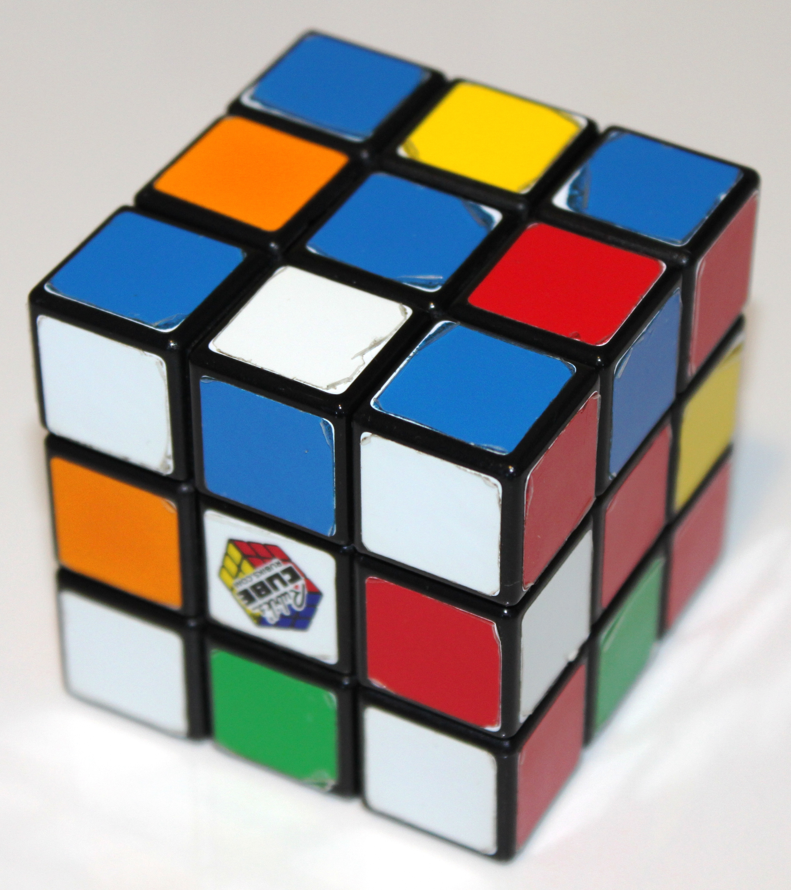 This is a photo of a "Rubiks cube"-like sequential move puzzle.